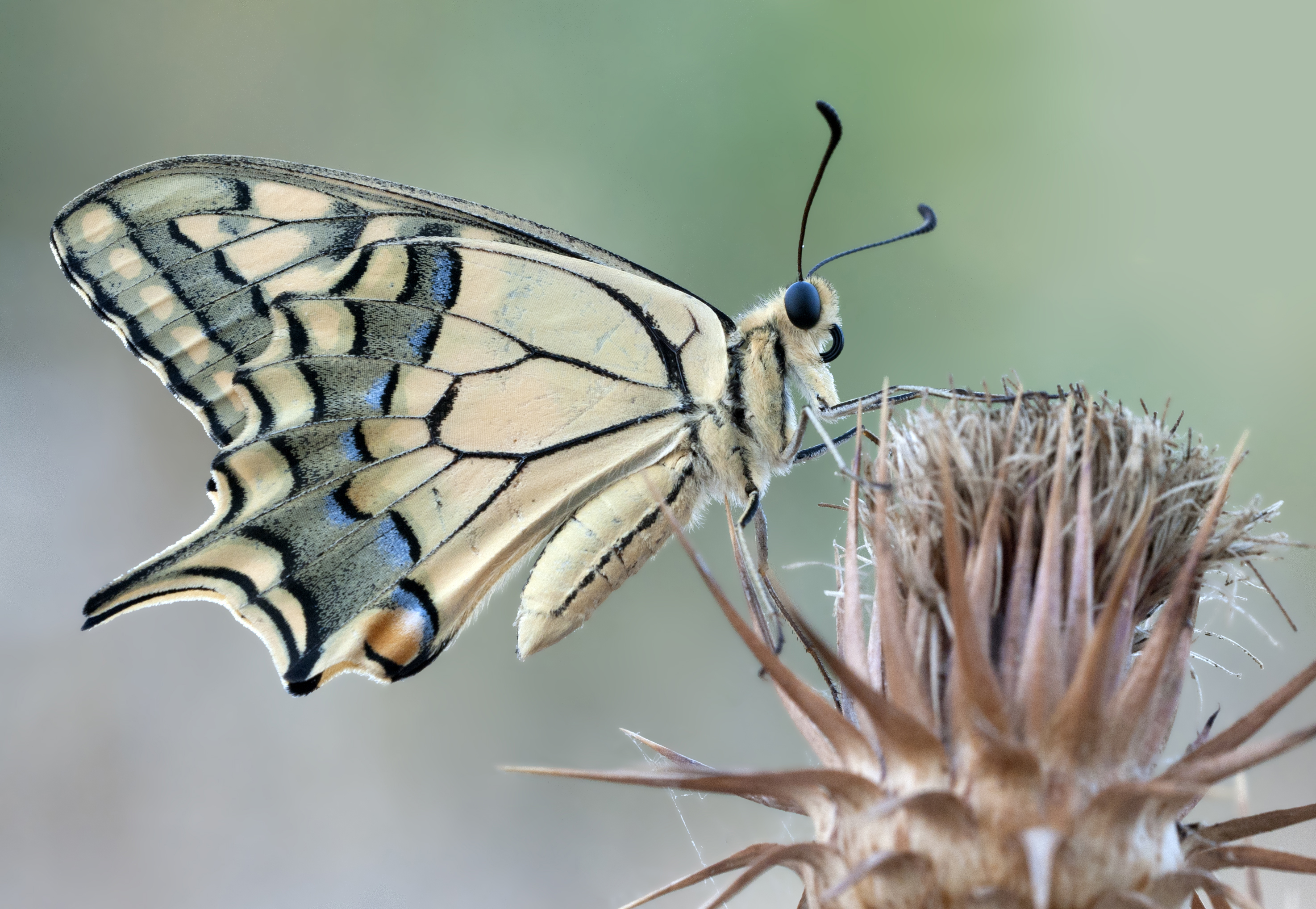 Wing underside view of a Swallowtail (Papilio machaon). Erdemli, Mersin - Turkey.